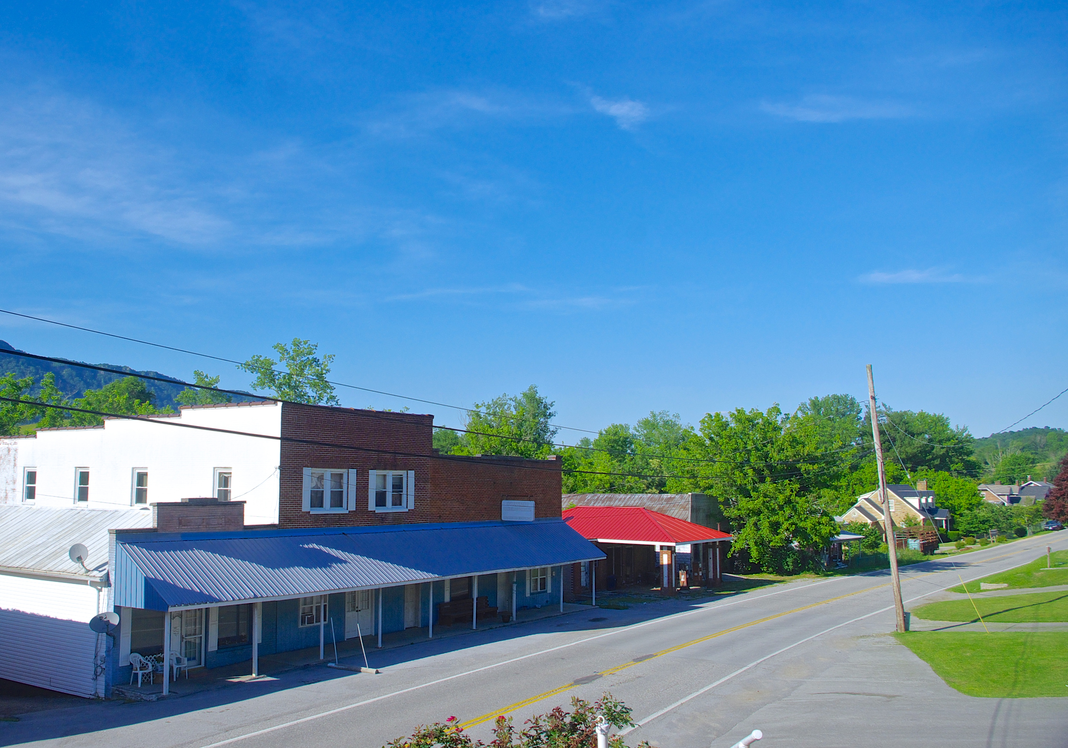 Businesses along Dr. Thomas Walker Road in Ewing, Virginia, United States.